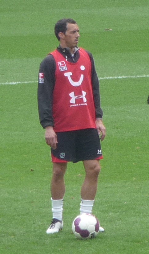 Sérgio Pinto